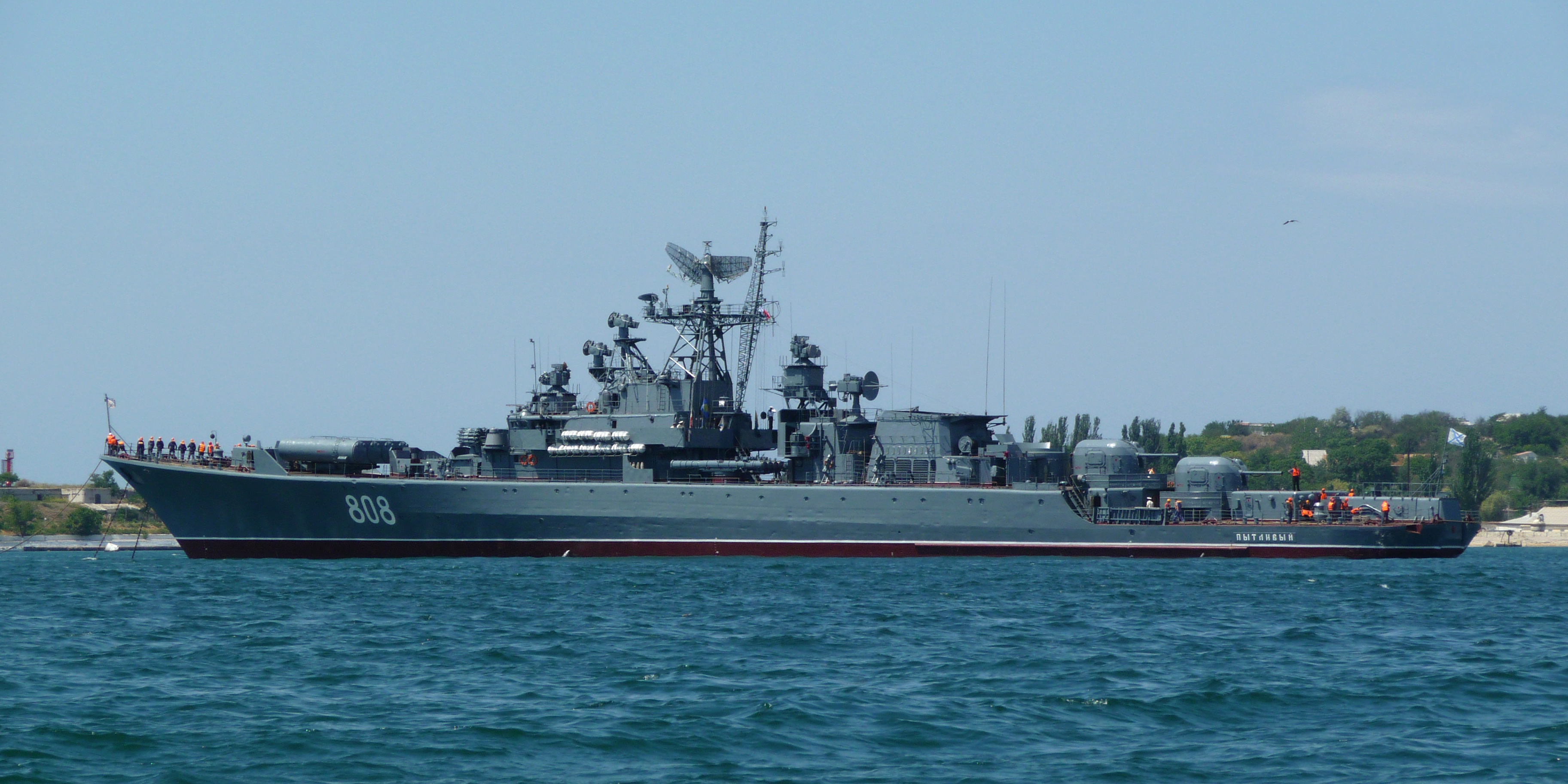 Burevestnik M class frigate Pytlivyy. NATO reporting name is Krivak II. Photo taken in Sevastopol bay from a boat.